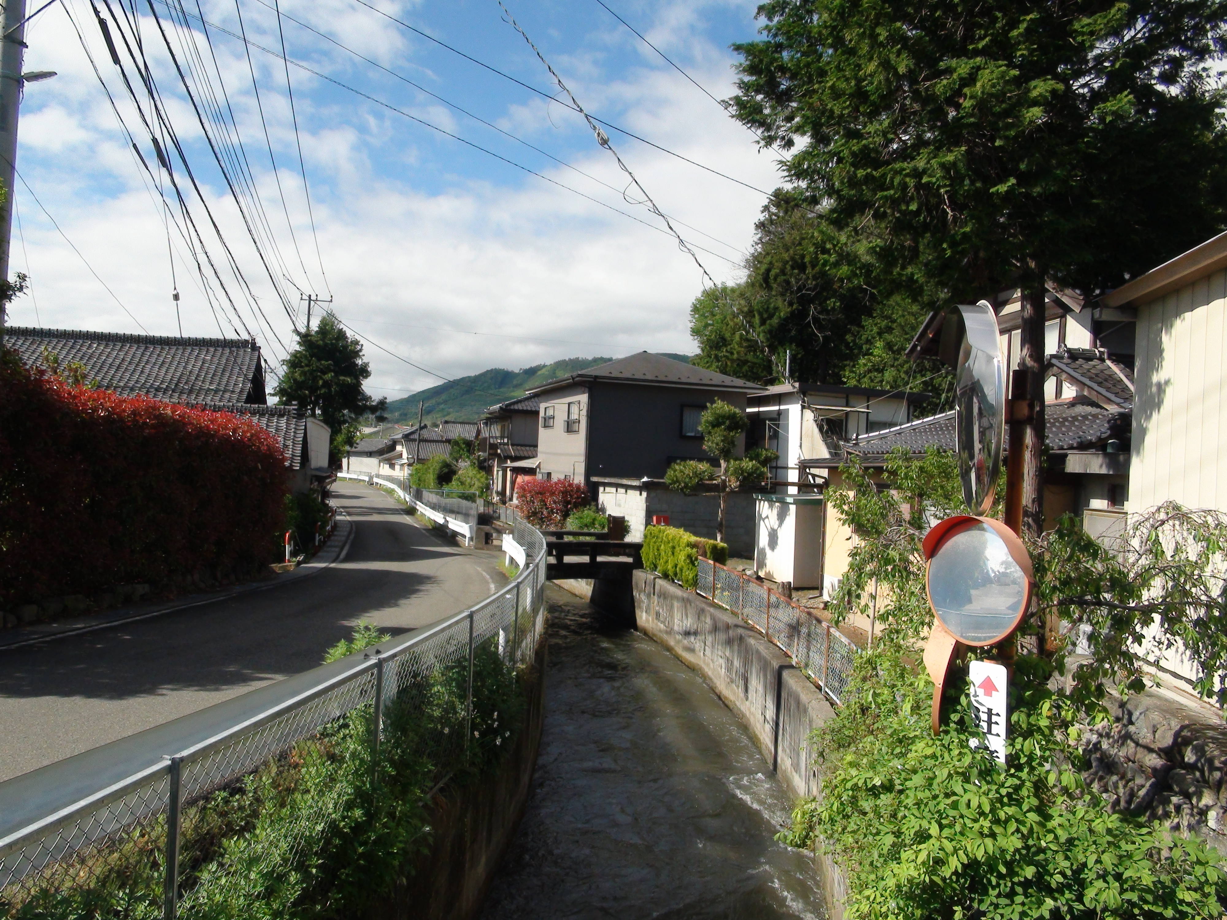 Tokushima-Segi irrigation waterway in Yamanashi prefectur